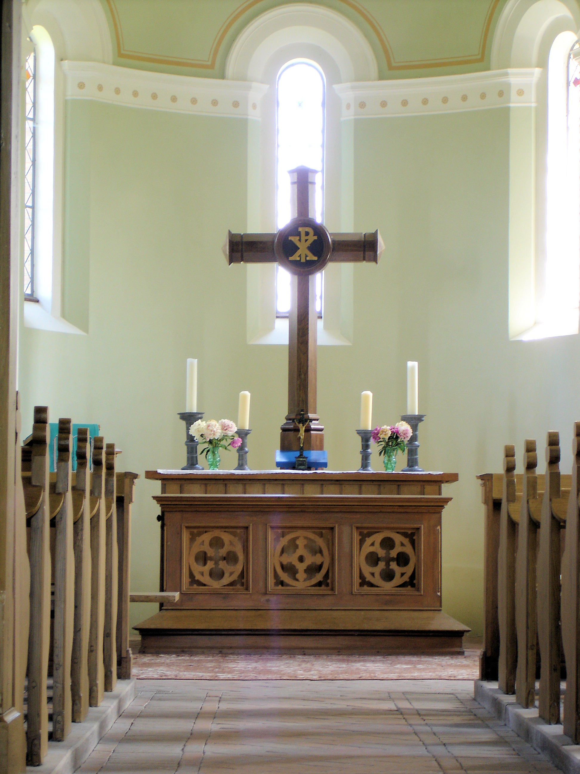 Church in Leussow, Mecklenburg, Germany